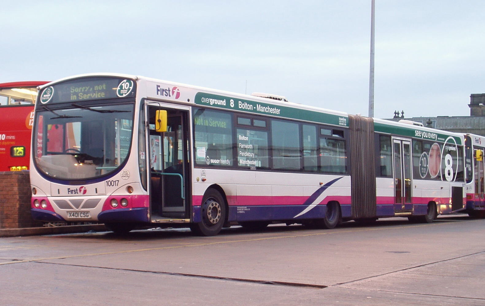 A Scania L94UA low floor articulated bus with Wright Solar Fusion bodywork. The only one of its type in the First Manchester fleet, it is seen in Bolton bus station between duties on route 8.